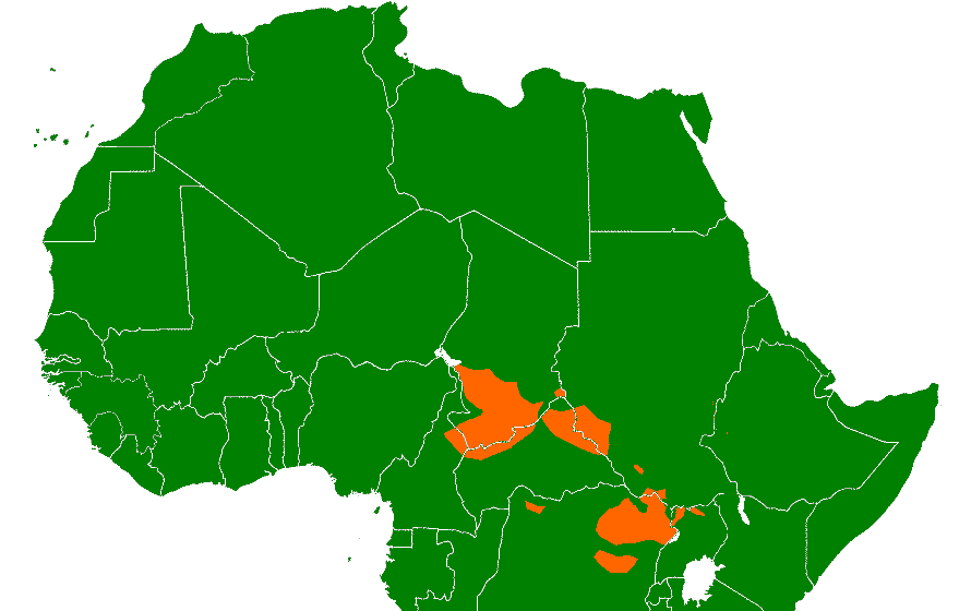 Nilo-Saharan languages distribution